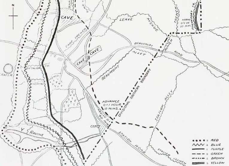 Diagram of 51st Division objectives, battle of the Ancre, 13 November 1916